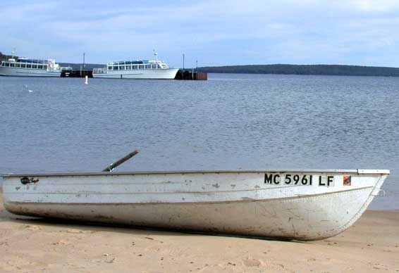 Boat on the beach in the harbor of Munising, Michigan.